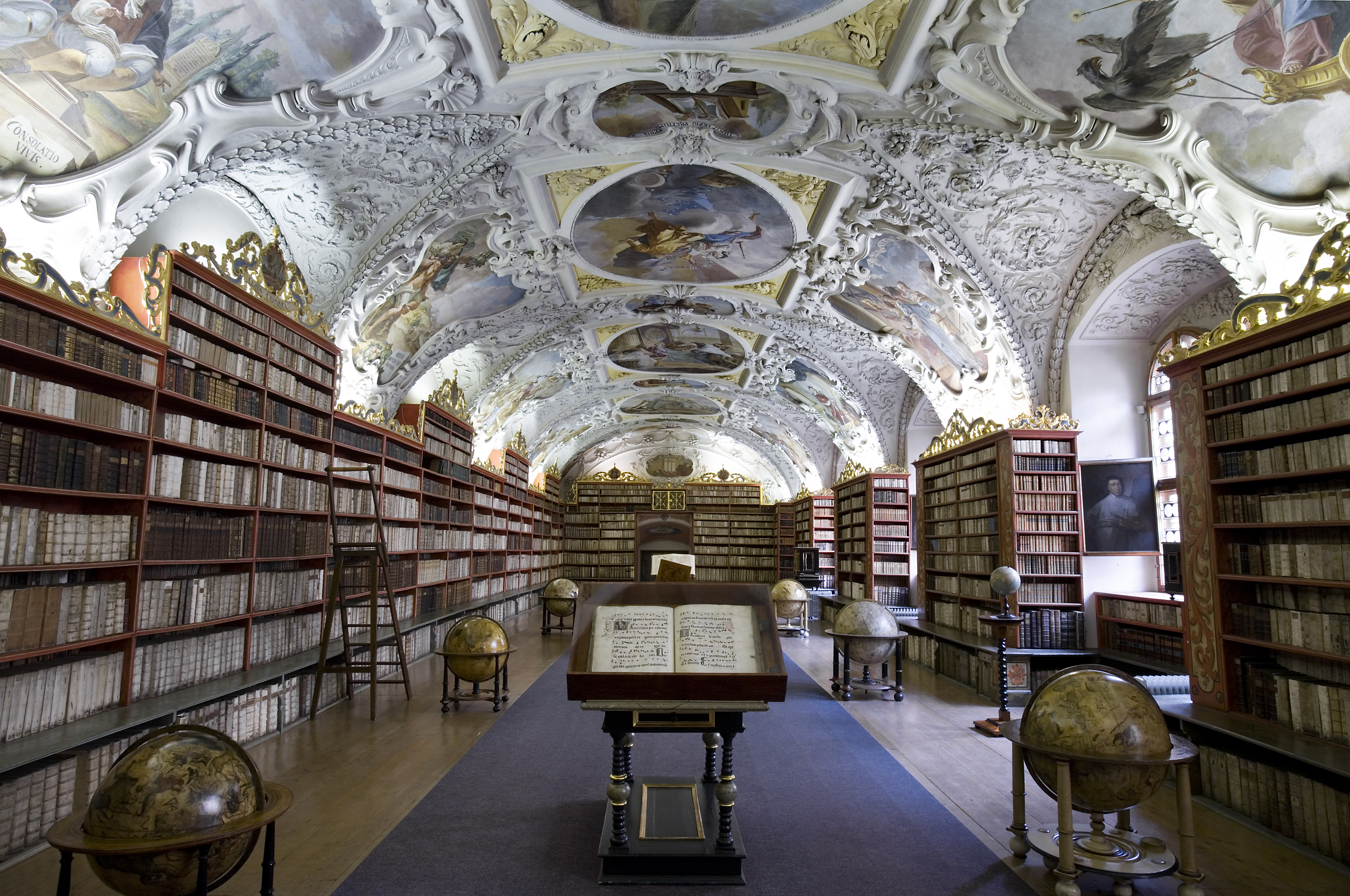 Strahov Theological Hall - Original Baroque Cabinets, Prague